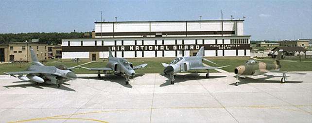 Photo of four types of aircraft flown by the U.S. Air Force 113th Fighter Squadron, 181st Fighter Wing, Indiana Air National Guard, between 1964 and 2007: (l-r) General Daynamics F-16C Fighting Falcon (1991-2007), McDonnell Douglas F-4E Phantom II (1987-1991), F-4C (1979-1987), and Republic F-84F Thunderstreak (1964-1971). The photo was taken at Hulman Field/Terre Haute International Airport, Indiana (USA).